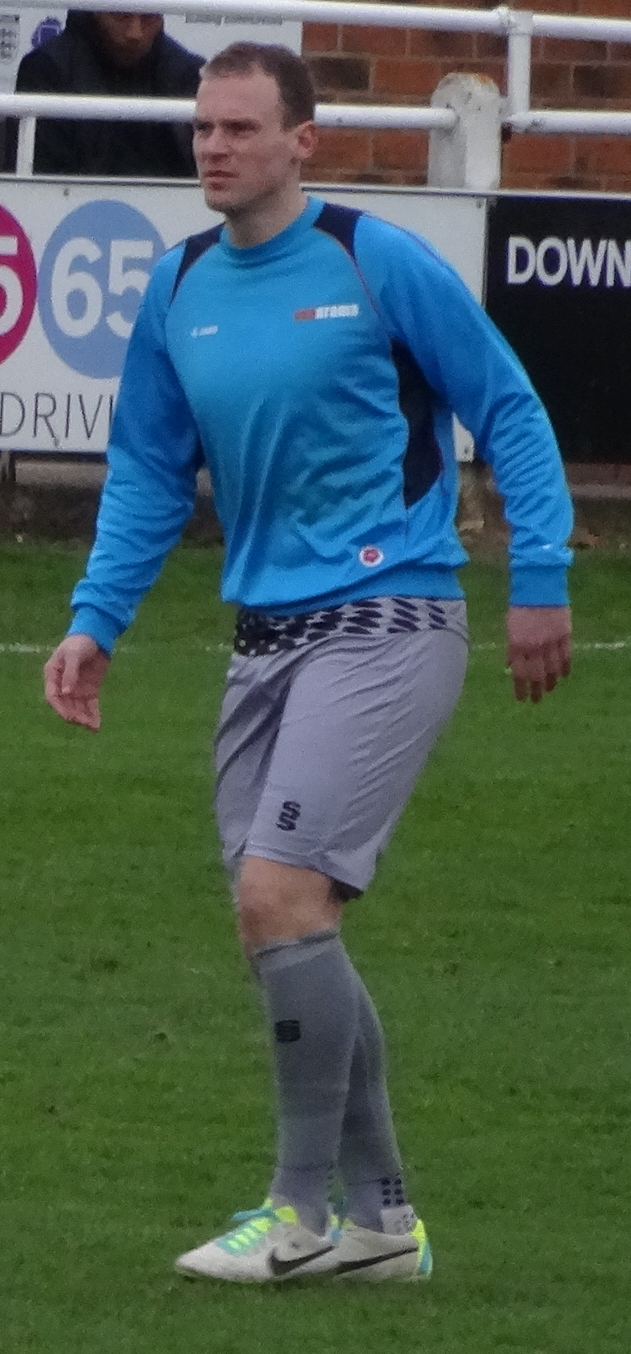 Daniel Lewis warming up for Solihull Moors against North Ferriby United at Grange Lane, North Ferriby on 18 March 2017